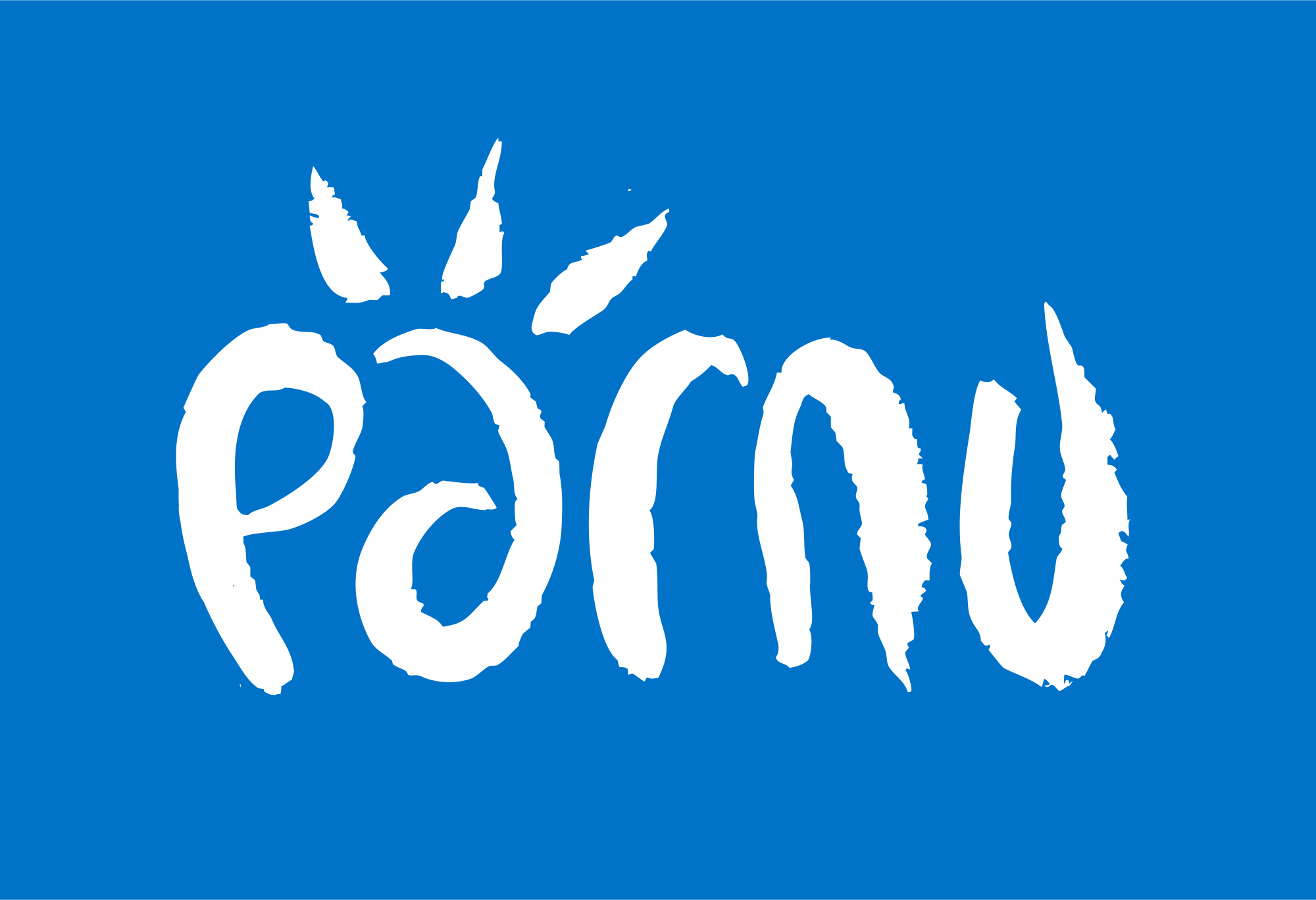 Logo of Pärnu town